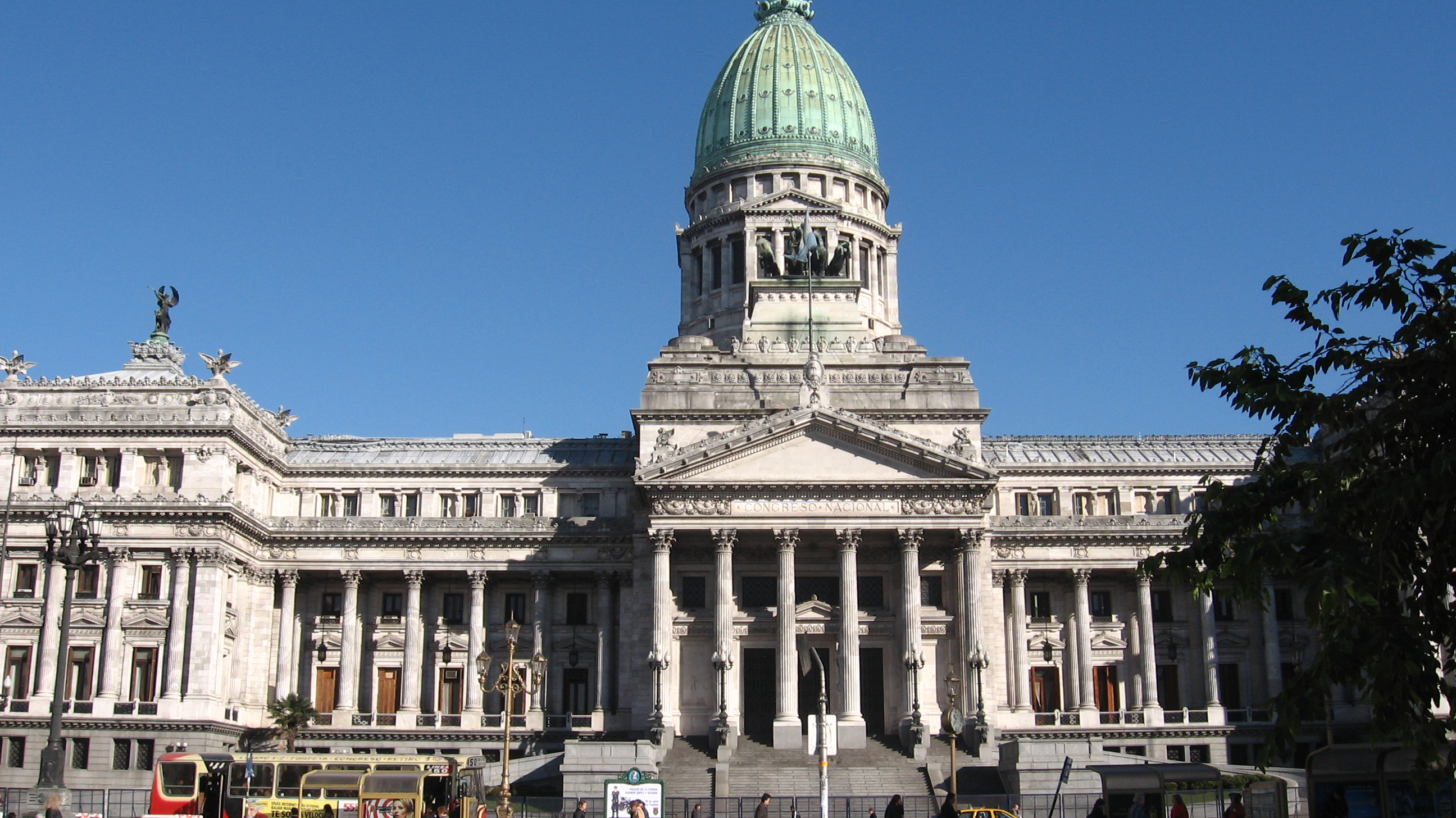 Argentine National Congress, located in the city of Buenos Aires